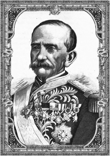 Self-portrait of José Mariano Salas, Lithograph (1870-1907).